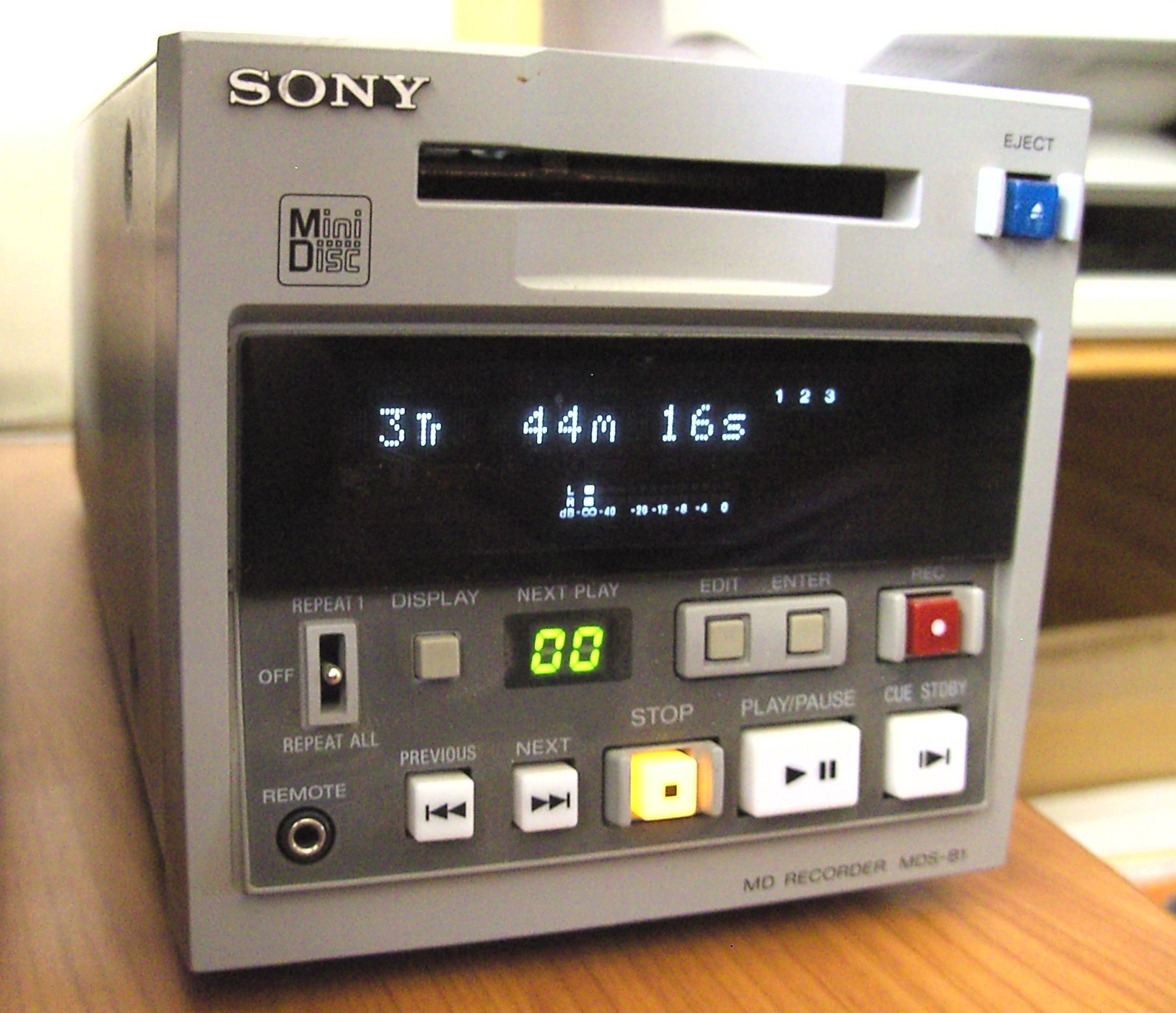 Sony MiniDisc MD Recorder MDS-81 - normally for recording studio or radio studio.